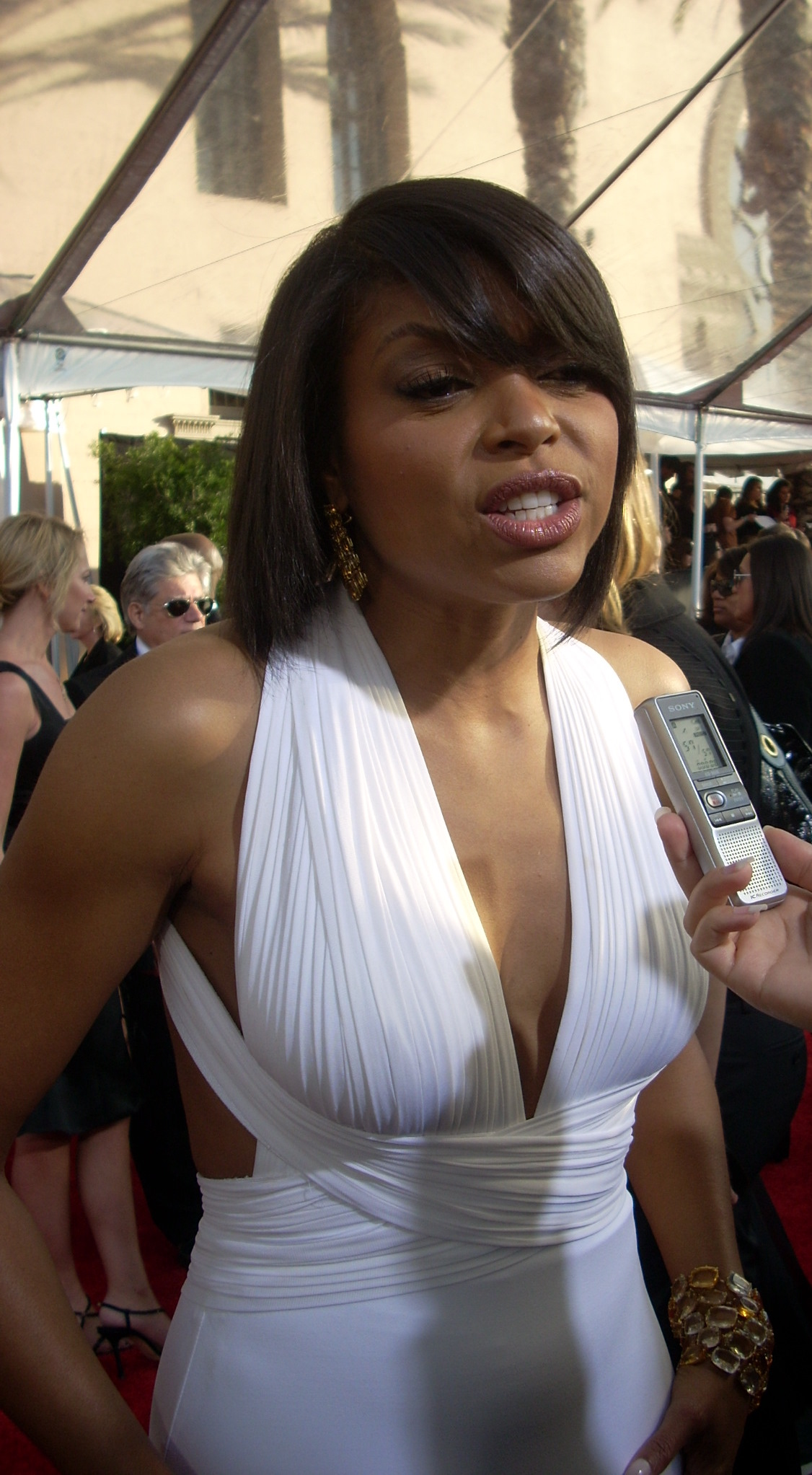 Actress Taraji P. Henson at 15th Screen Actors Guild Awards, Shrine Auditorium, Los Angeles.